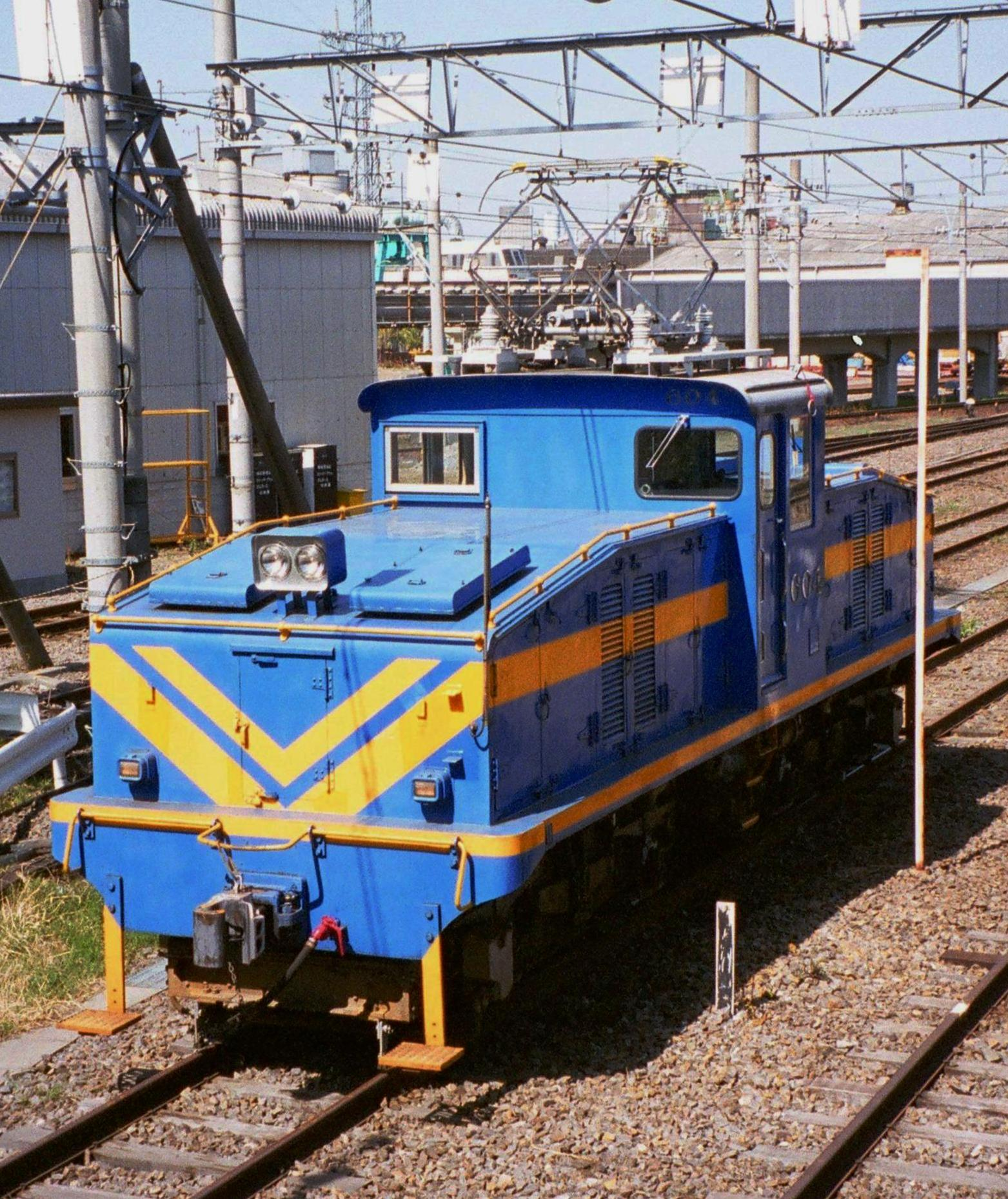 Nagoya Railroad Type Deki604 Electric locomotive(Japan). 名鉄デキ600形電気機関車（デキ604）。 大江駅構内にて、陸橋より撮影